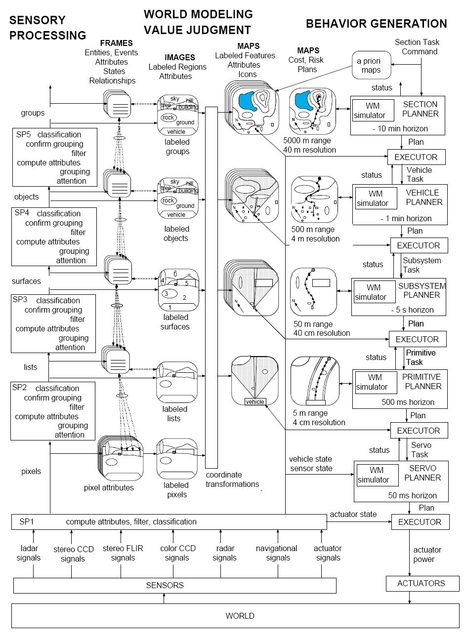 Five levels of the 4D/RCS architecture for Demo III. On the right are Planner and Executor modules. In the center are maps for representing terrain features, road, bridges, vehicles, friendly/enemy positions, and the cost and risk of traversing various regions. On the left are Sensory Processing functions, symbolic representations of entities and events, and segmented images with labeled regions. The coordinate transforms in the middle use range information to assign labeled regions in the entity image hierarchy on the left to locations on planning maps on the right. This causes the entity class hierarchy on the left to be orthogonal to the BG process hierarchy on the right.